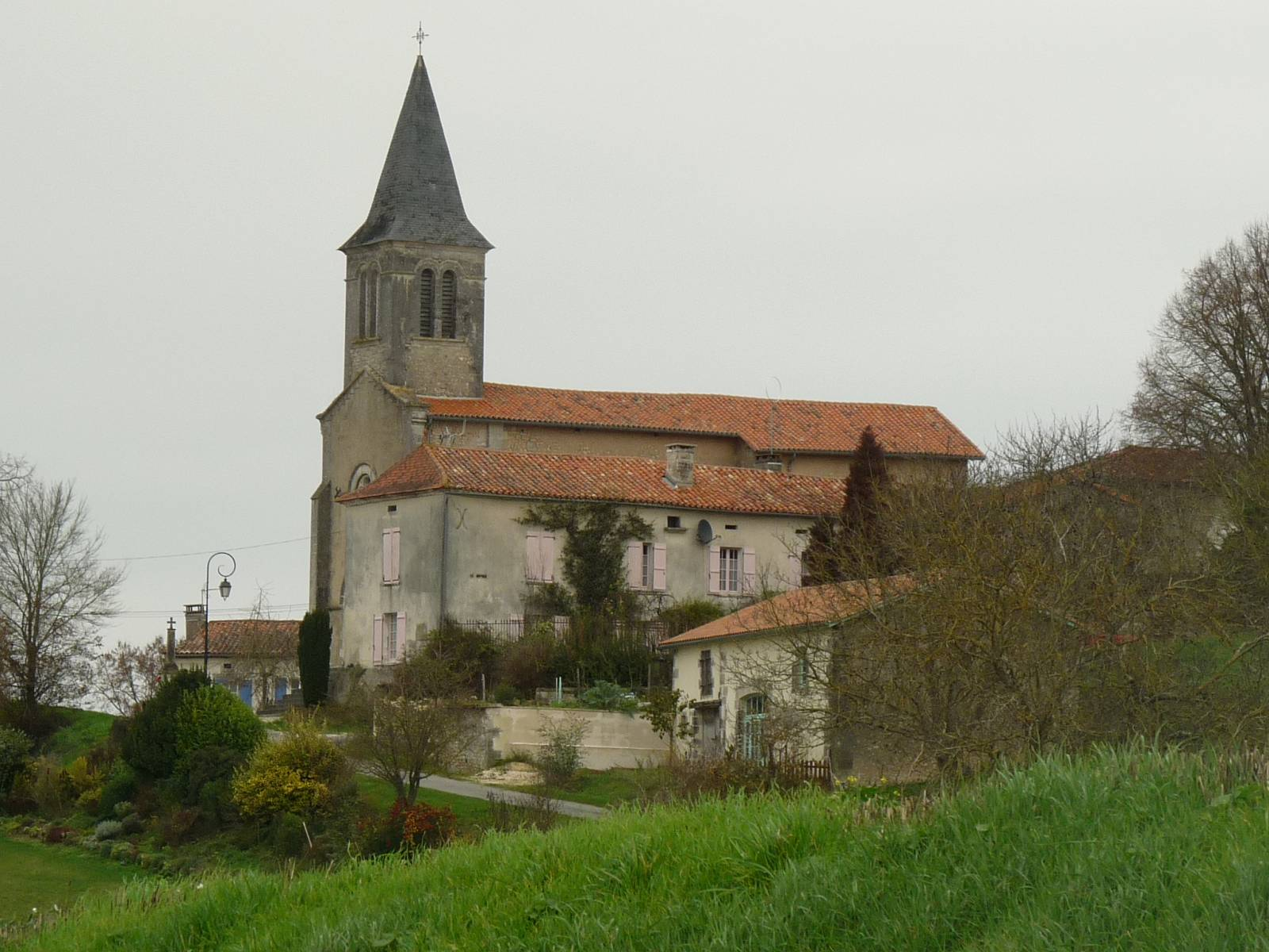 church of Auriac